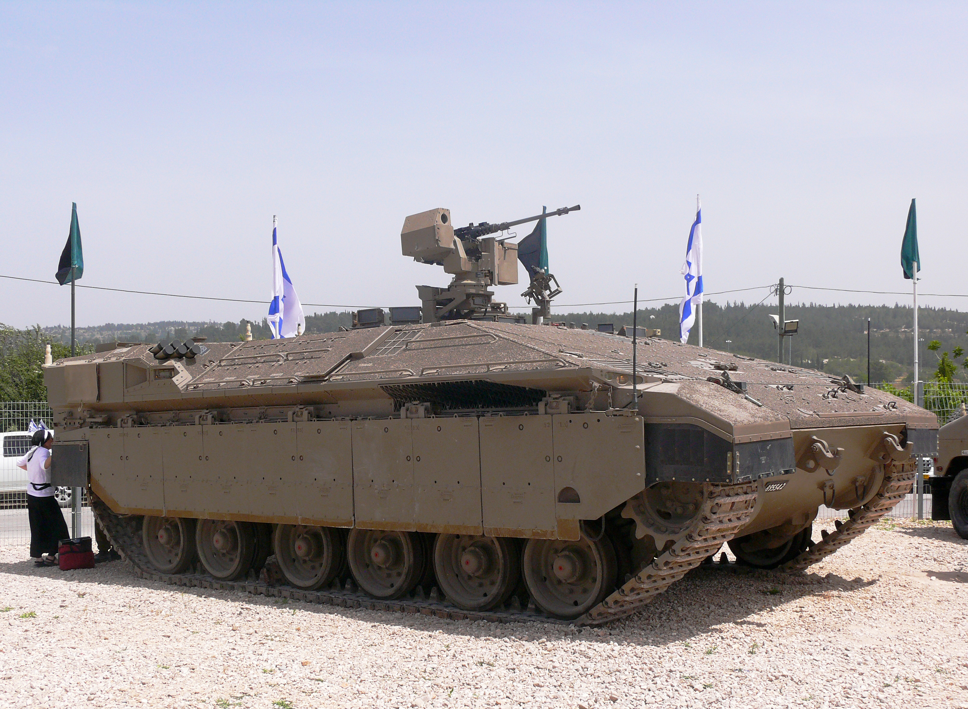 IDF Namer APC